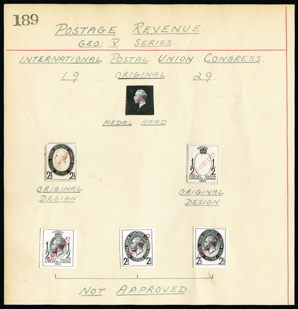 1929 ½d & 2½d Postal Union Congress Die Proofs. Large annotated piece from a presentation album bearing an uncleared proof of the approved "Medal Head" two stamp size bromides (One with corner defect) and three stamp size die proofs of unnapproved designs in black on glazed card all overprinted "CANCELLED" (19.5 x 2.5mm) in red. The unnapproved designs include an example of the ½d value with minor type variations and a different crown above the King's head, a 2½d value with the face value in a different type face placed higher than issued and outer border variations and a 2½d value with the face value as issued but with the outer frame variations. All are presently unlisted but to be included in the next Specialised Vol.2 Catalogue. Ex. The personal archive of Royal Mint Engraver H.A. Richardson presented to him upon his retirement. SG number: 434/7var